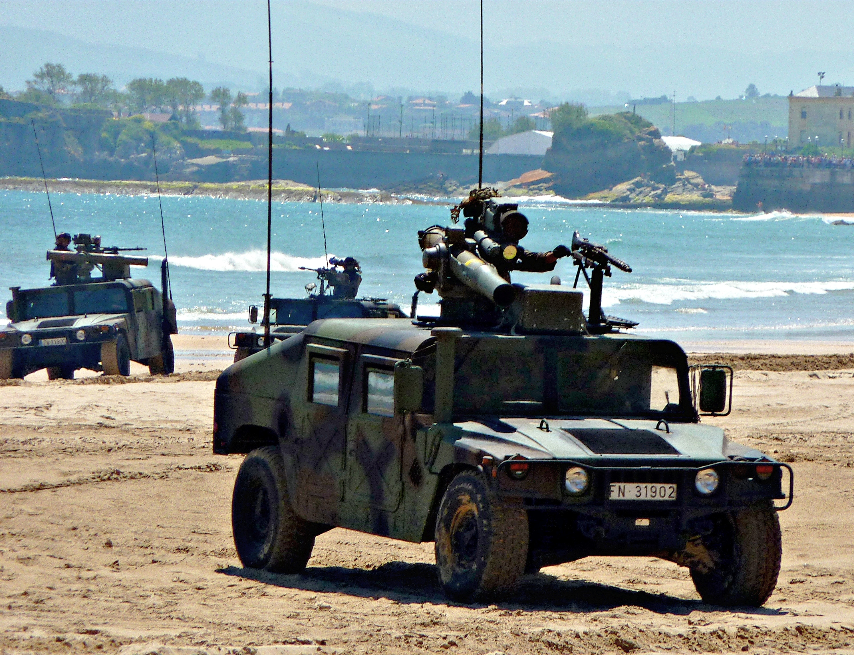 Hummer TOW of the Spanish Marines.